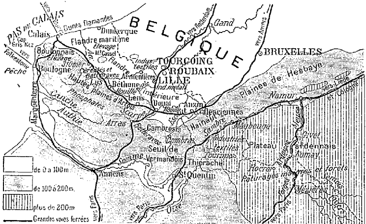 Map of Northern France in 1902